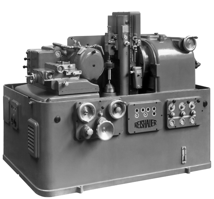 Reishauer ZA Continuous Generating Grinding Machine 1945